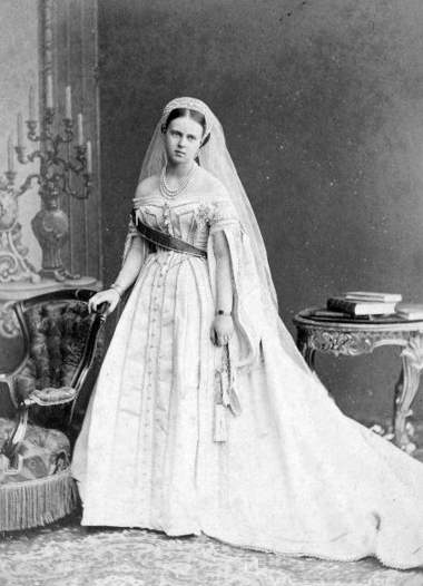 Grand Duchess Maria Alexandrovna of Russia (1853–1920)